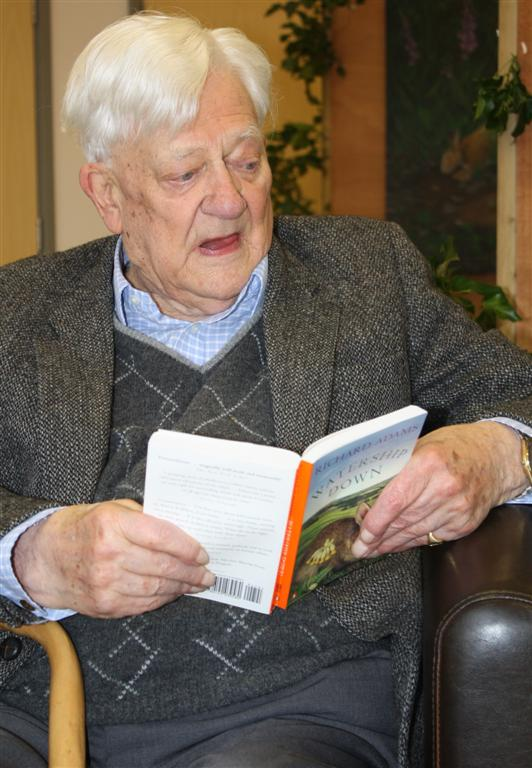 Richard Adams, author of 'Watership Down', reads from his book at the Whitchurch Arts ( presentation of Aldo Galli's paintings, which were inspired by the book. The show was held at the Gill Nethercott Centre in Whitchurch, Hampshire, England, UK on November 16, 2008. I, Andrew Reeves-Hall, took the photo from which this 1024x768 version was derived.